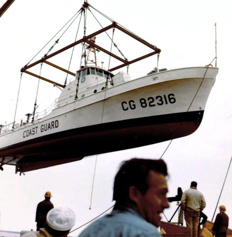 USCGC Point Mast being loaded onto Pvt. Joseph Merril at U.S. Naval Base, Long Beach, California bound for Subic Bay, Phillipines.